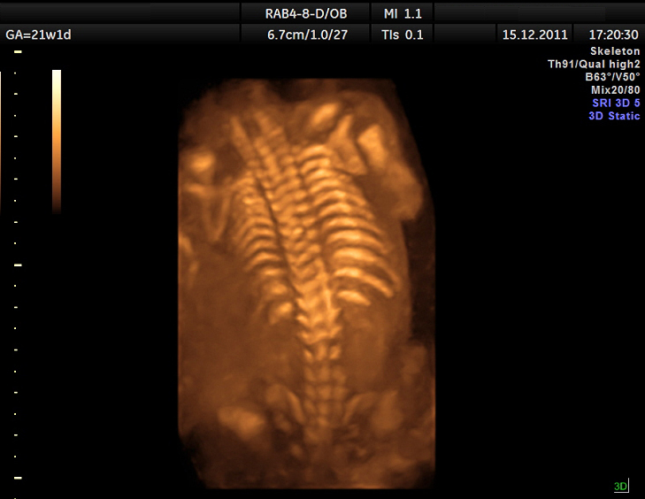 3D Ultrasound image of the fetal spine at 21 weeks of pregnancy.Image generated by a Voluson E8 system with 3D Static Volume Mode, with mechanical RAB4-8-D Wide Band Convex Volume Probe. Focal Zone position at 6,7 cm. Aquisition: Skeleton mode. Threshold 91/Quality high2, Volume box angle: 63° by 50°. Mix 20/80. Speckle Reduction Imaging step 5